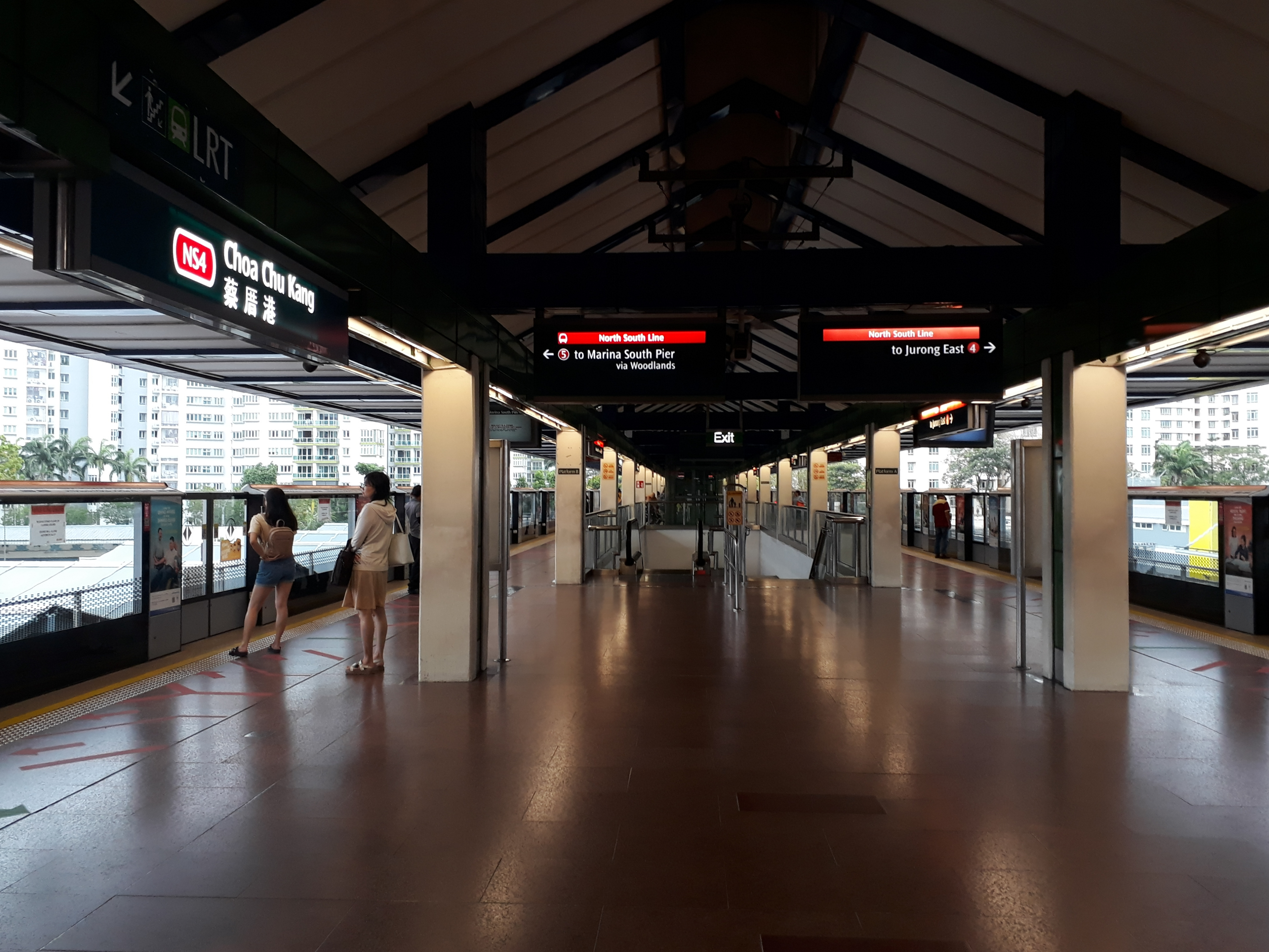 Choa Chu Kang MRT Platform